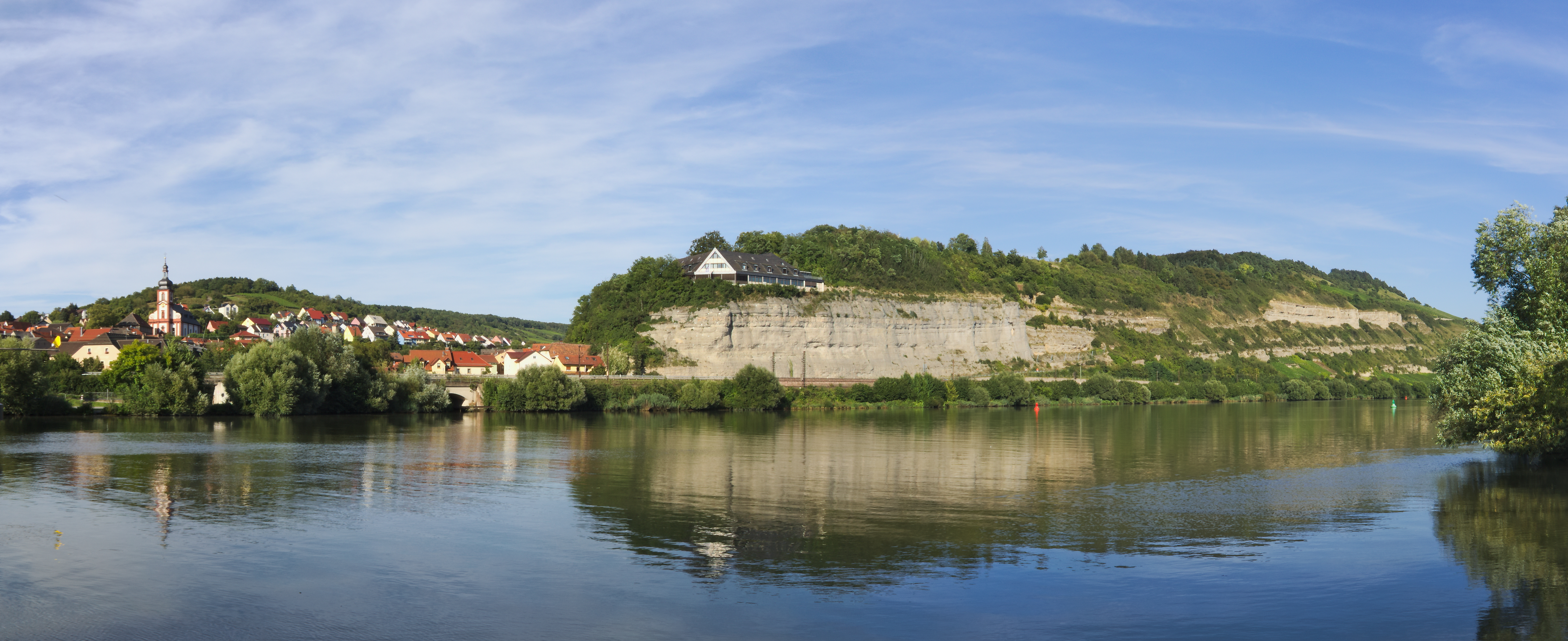 Retzbach from bank of Main in Zellingen near Würzburg (Northern Bavaria)